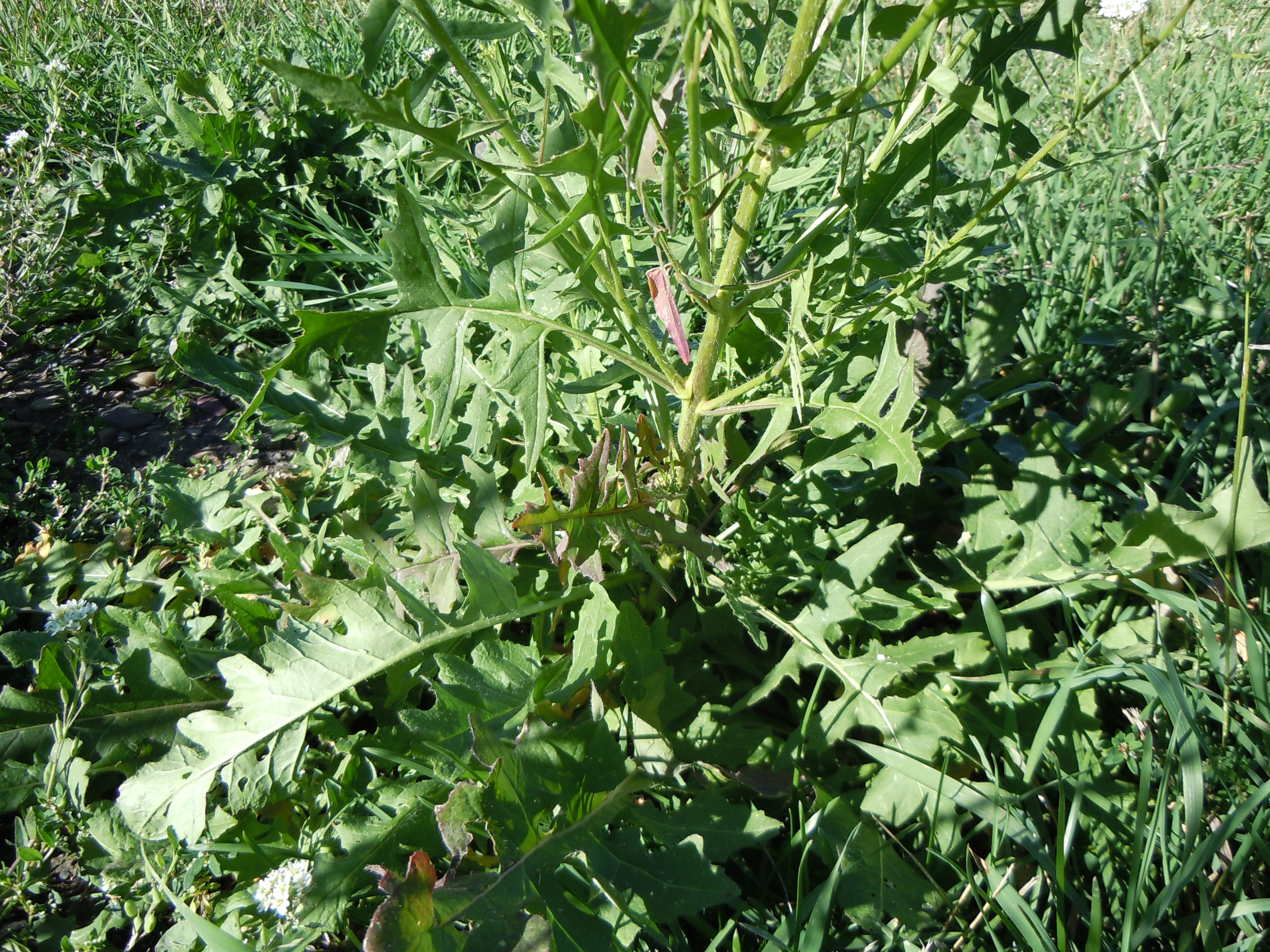 The simple hirsute hairs and pinnatifid basal leaves and sagittate stems leaves are characteristic of this species.